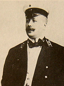 Mikhail Eisenstein's potrait was cropped and slightly modified from the following image Image:Mikhail-einsenstein-0713-01.jpg. Eisenstein, Mikhail, was an Art Nouveau architect from Riga, Latvia, (1867 - 1920) and the father of Serghei Eisenstein, (1898 - 1948), a sovietic film director.